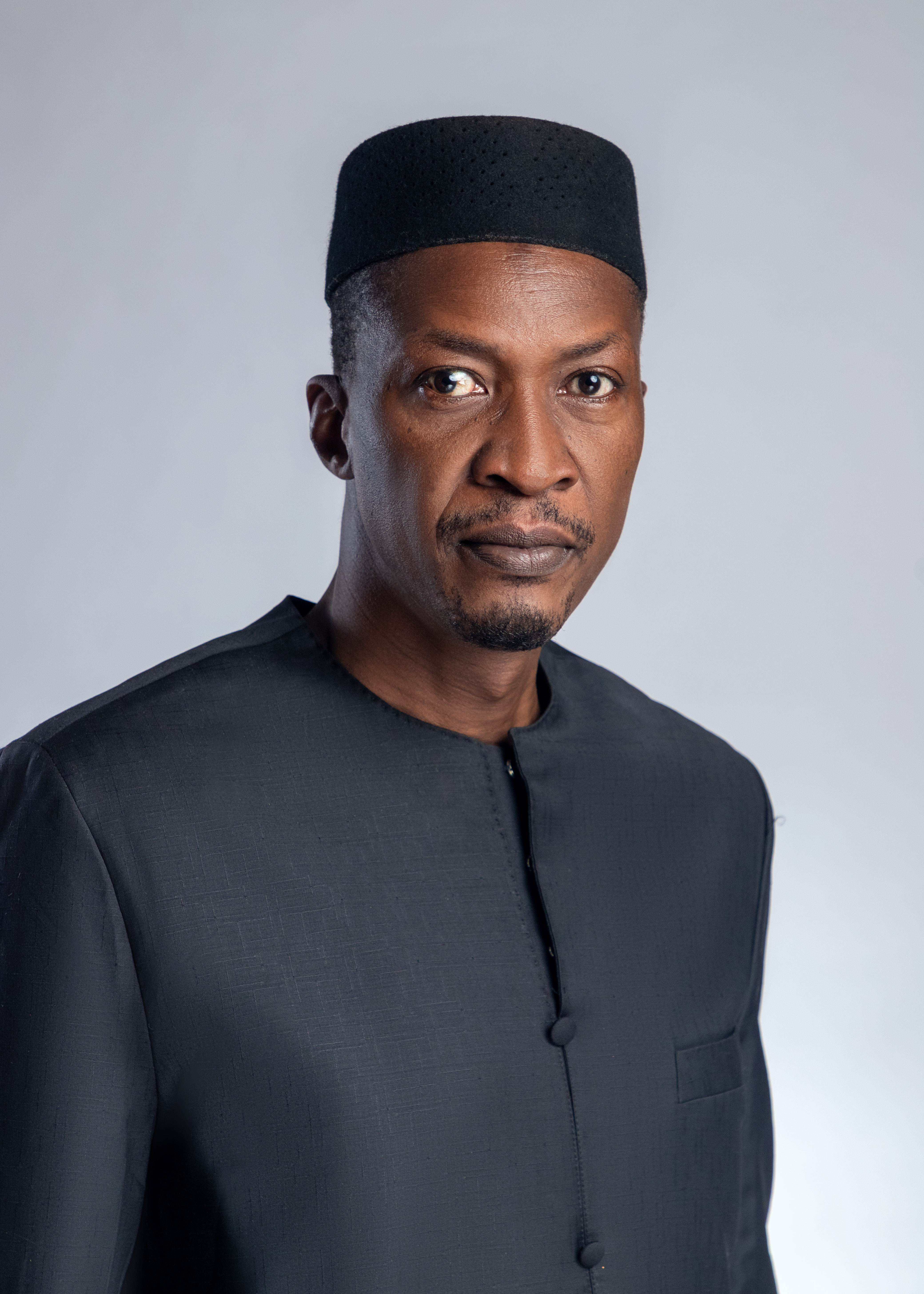 Housseini Amion Guindo on December 22 2011